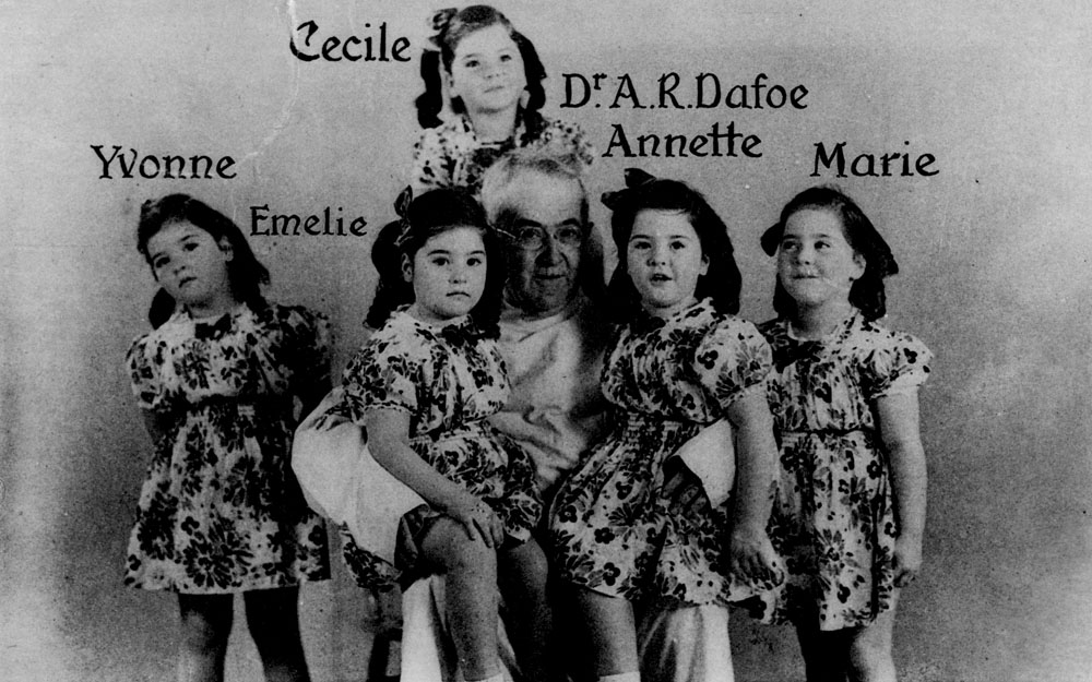 The Dionne Quintuplets, Yvonne, Emelie, Cecile, Annette and Marie, with Dr. Allan Roy Dafoe who delivered them.